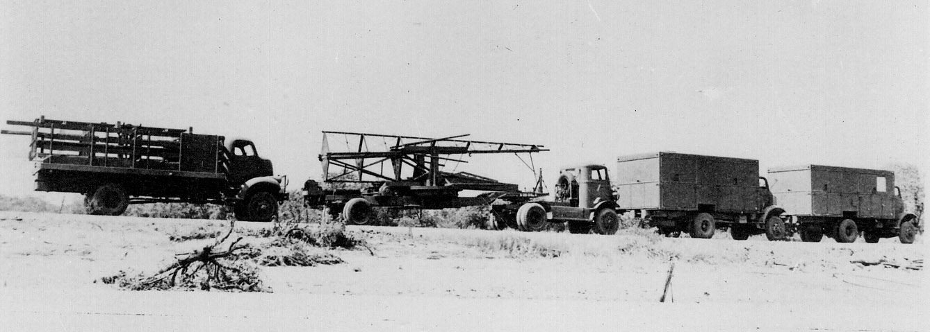 Original Caption: SCR-270 portable radar ready for transport. This is the same equipment used by an SR-270 unit located at Opana point that detected the Pearl Harbor attacking planes 55 minutes prior to the attack. alteration- this version has a border cropped which credits the photo to Lieutenant Zahl. Original at the above location. This photo is credited to First Lieutenant Harold Zahl, who pioneered Radar use by the Army air corps. The photo appears in a paper by him from the period. these photos would not have been saved were it not for Dr. Howard W. Andrews, who had the foresight to preserve them along with Lieutenant (Dr.) Zahl's papers for posterity. Credit and thanks to H.W. Andrews for preseving these photos.